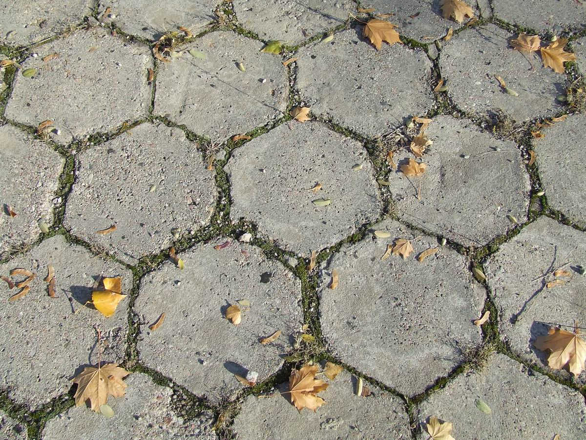 A piece of concrete called in Polish 'trylinka'